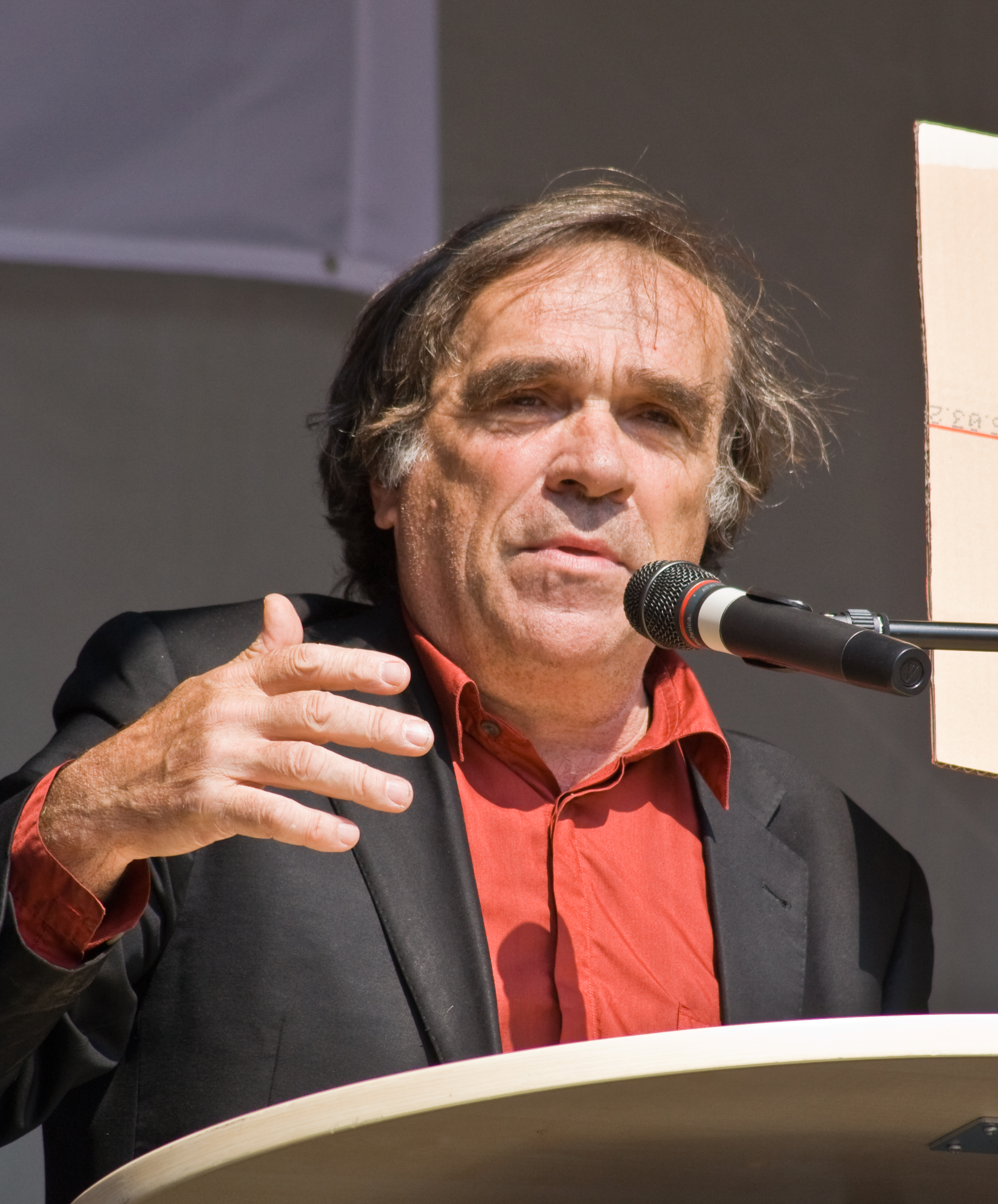 Heinrich Pachl, German actor and cabaret artist